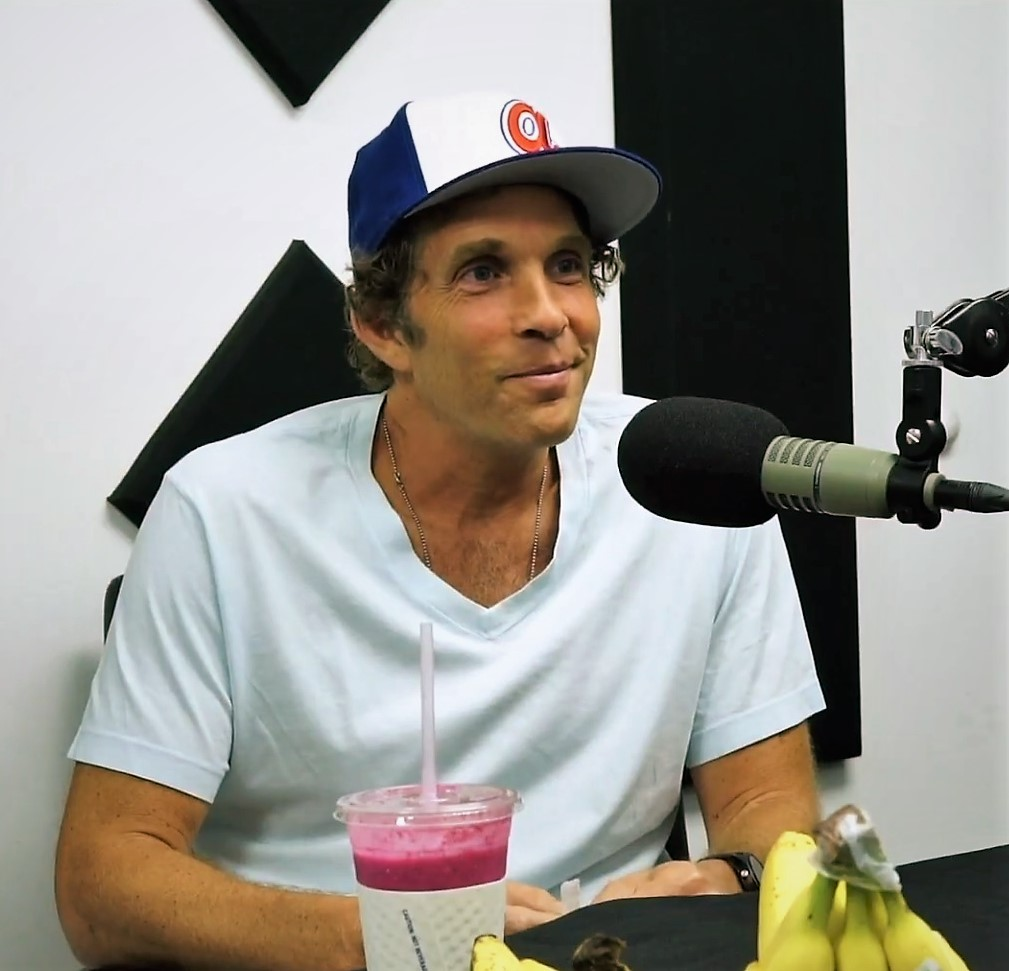 Jesse Itzeler | The Art of Living Your Fullest Life - Art of Charm Ep.#708 On today’s episode, The Art of Charm is honored to welcome back entrepreneur, author, and speaker, Jesse Itzler. His first podcast ever was The Art of Charm – and in today’s episode we catch up with him to learn what he’s added to his “life resumé” since we saw him last. Official Website: Join The Art of Charm Challenge: Follow us on: -Facebook: -Twitter: -Instagram